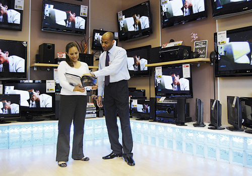 Home Cinema section at Richer Sounds' London City store